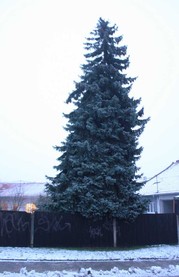 Picea_pungens. Brno, CZ Česky: Picea_pungens, Brno, CZ